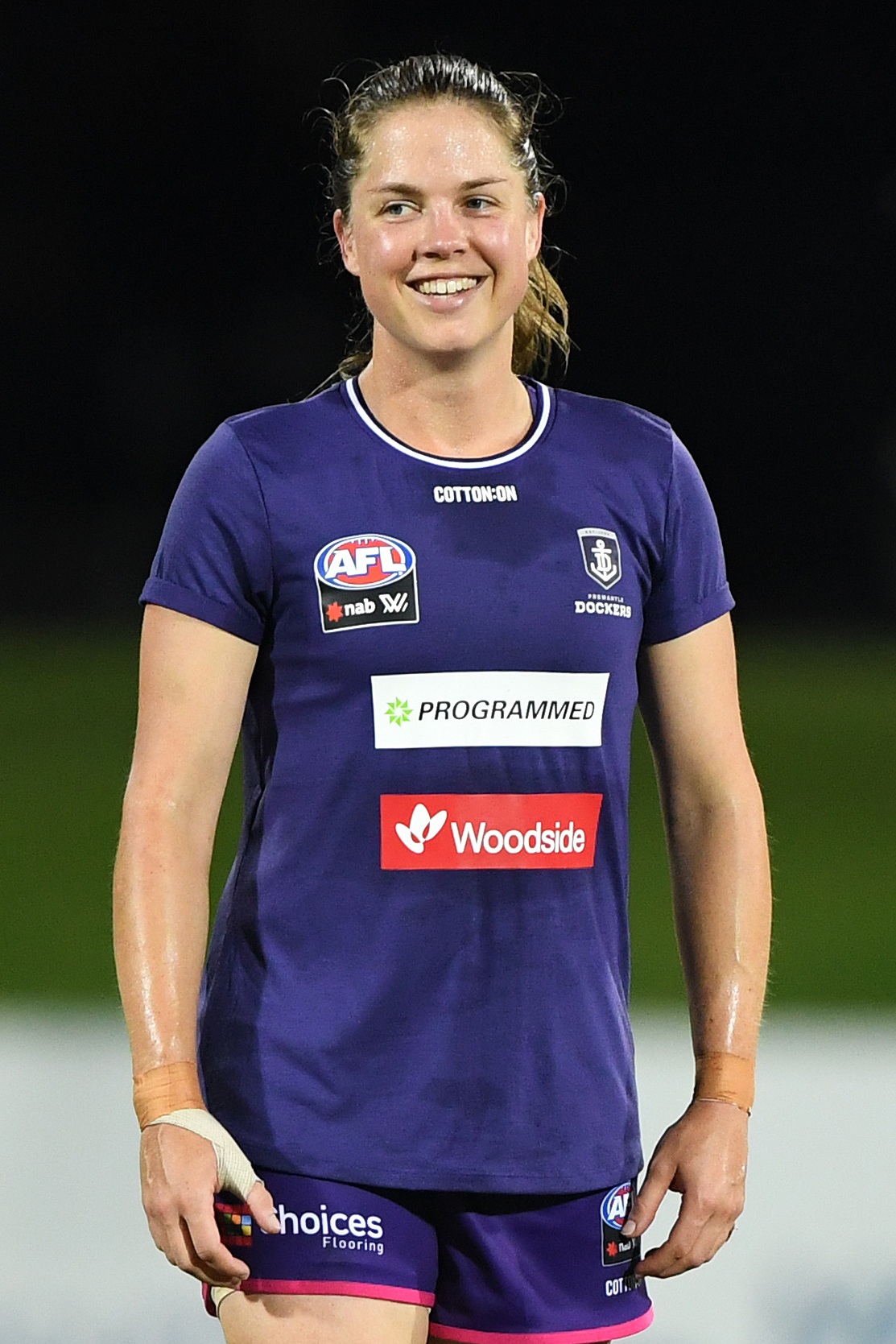 Leah Mascall of Fremantle during the 2019 AFL Women's practice match between the Adelaide Football Club and Fremantle Football Club at TIO Stadium on January 19, 2019 in Darwin Australia.